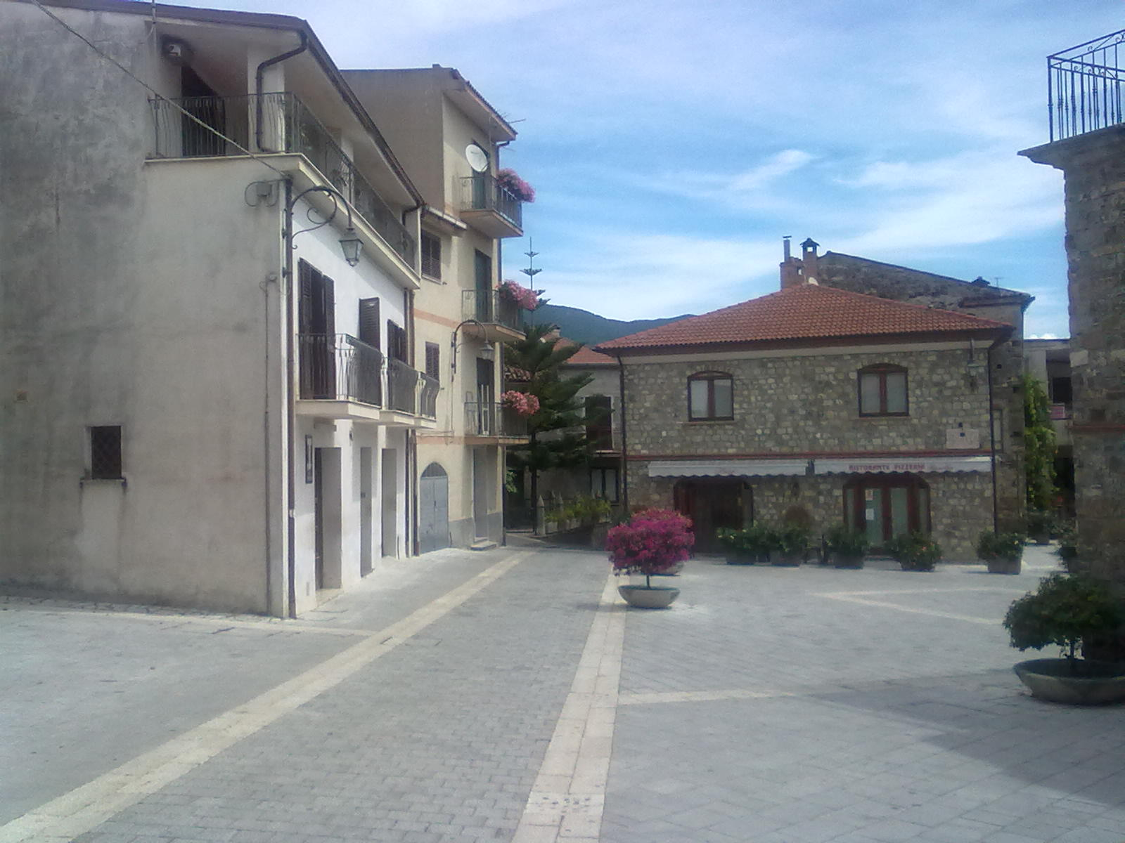 view of Sicilì, hamlet of Morigerati